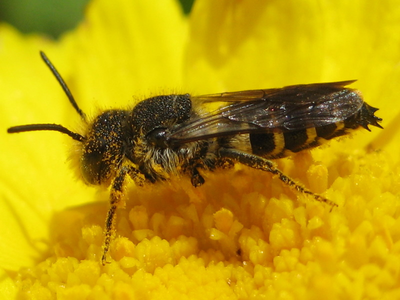 Coelioxys inermis, male. Location: The Netherlands - Westkapelle (dorp)